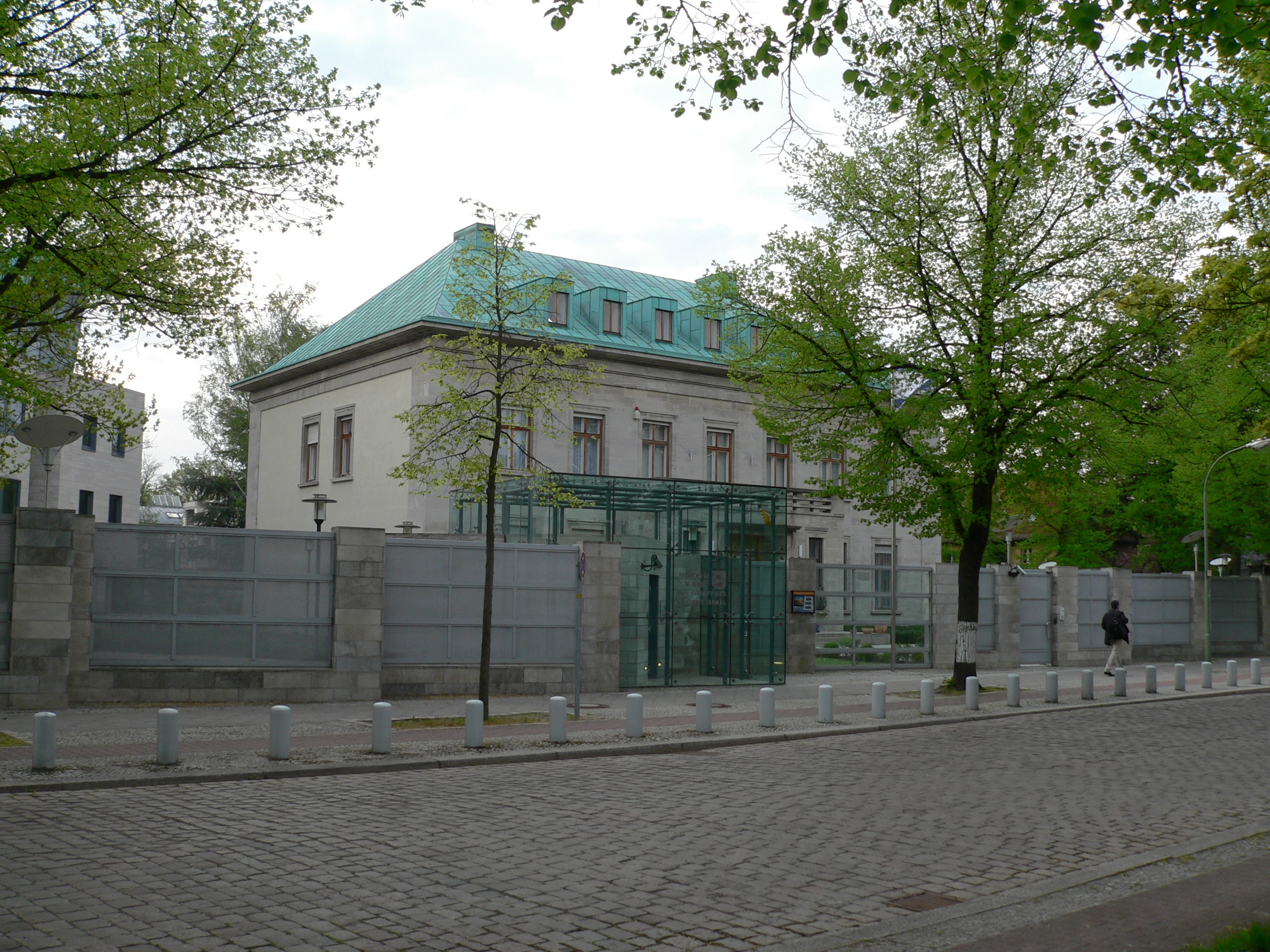 Berlin-Schmargendorf, Embassy of Israel at Auguste-Viktoria-Straße by Orit Willenberg-Giladi